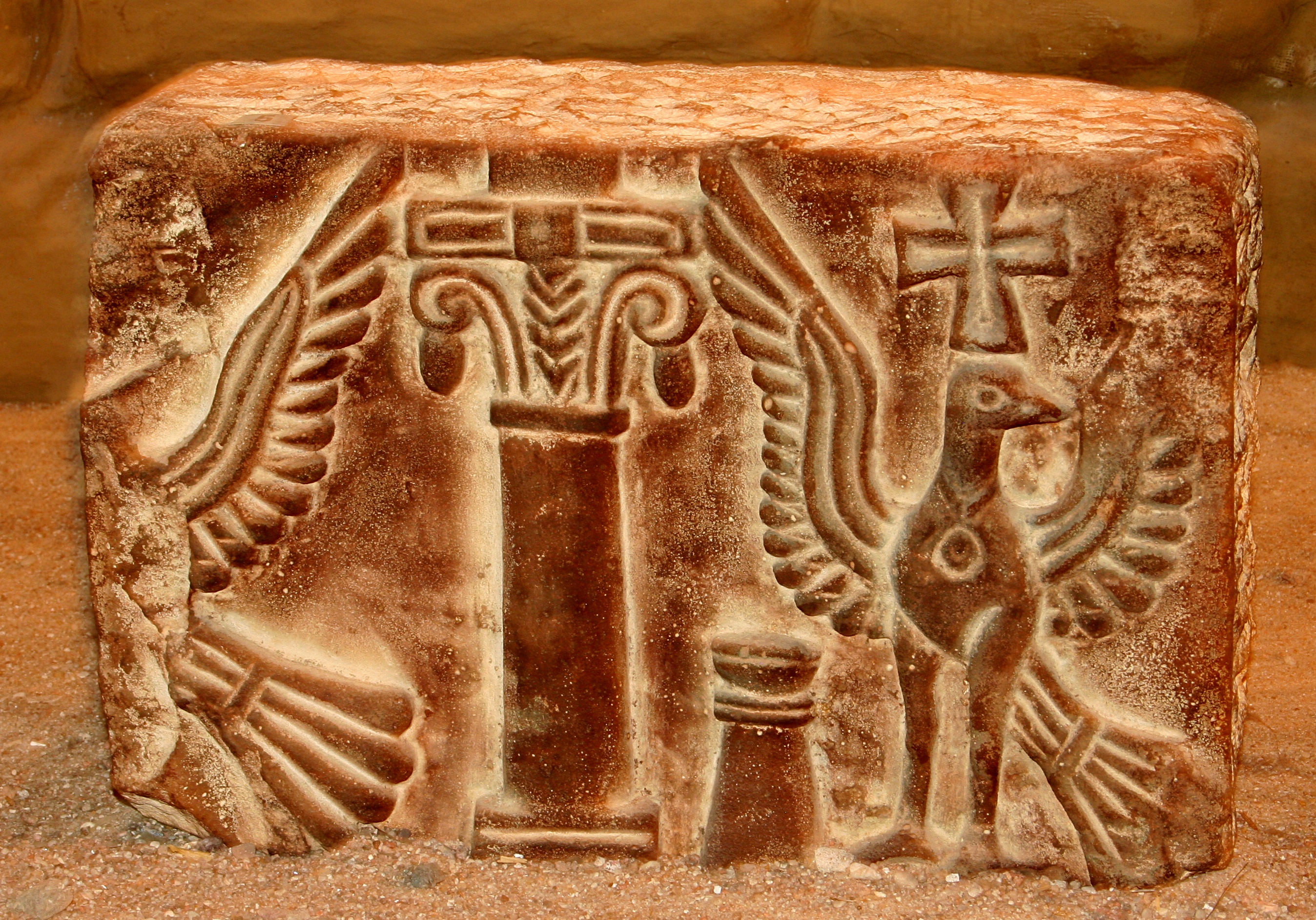 Sandstone block forming part of a freeze from the apse of Faras cathedral, first half of 7th century - Archaeological Museum in Gdańsk. This photo of Kashubia, Pomerelia and Żuławy Wiślane was taken during Wikiekspedycja 2010 set up by Wikimedia Polska Association. You can see all photographs in category Wikiekspedycja 2010. The making of this document was supported by Wikimedia Polska.